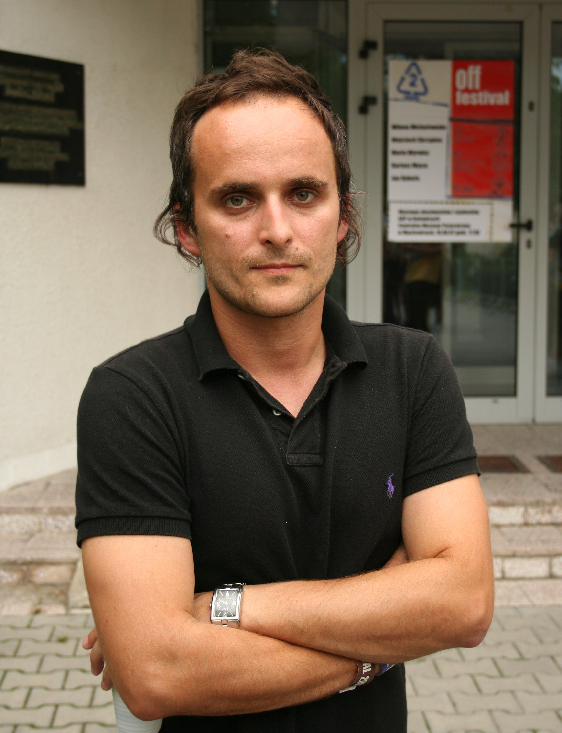 Artur Rojek, Off Festival, Mysłowice